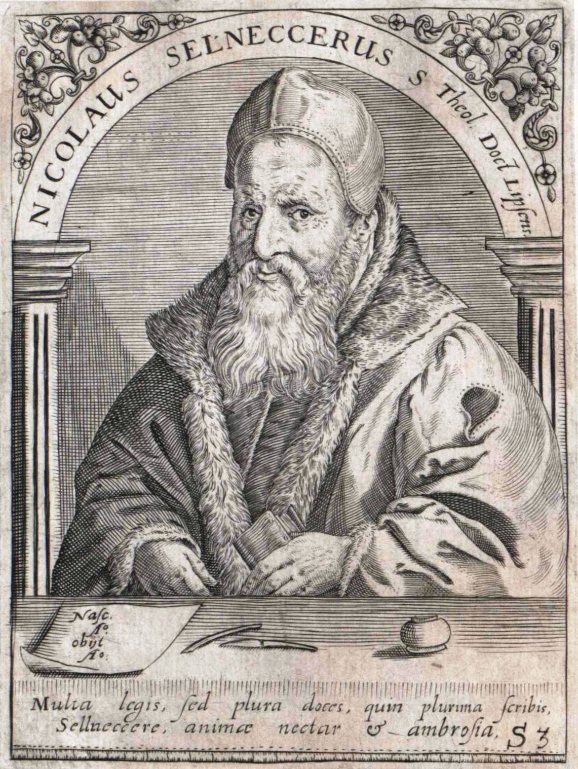 Copperplate engraving of Nikolaus Selnecker (1530-1592), Professor of Theology at Jena and Leipzig